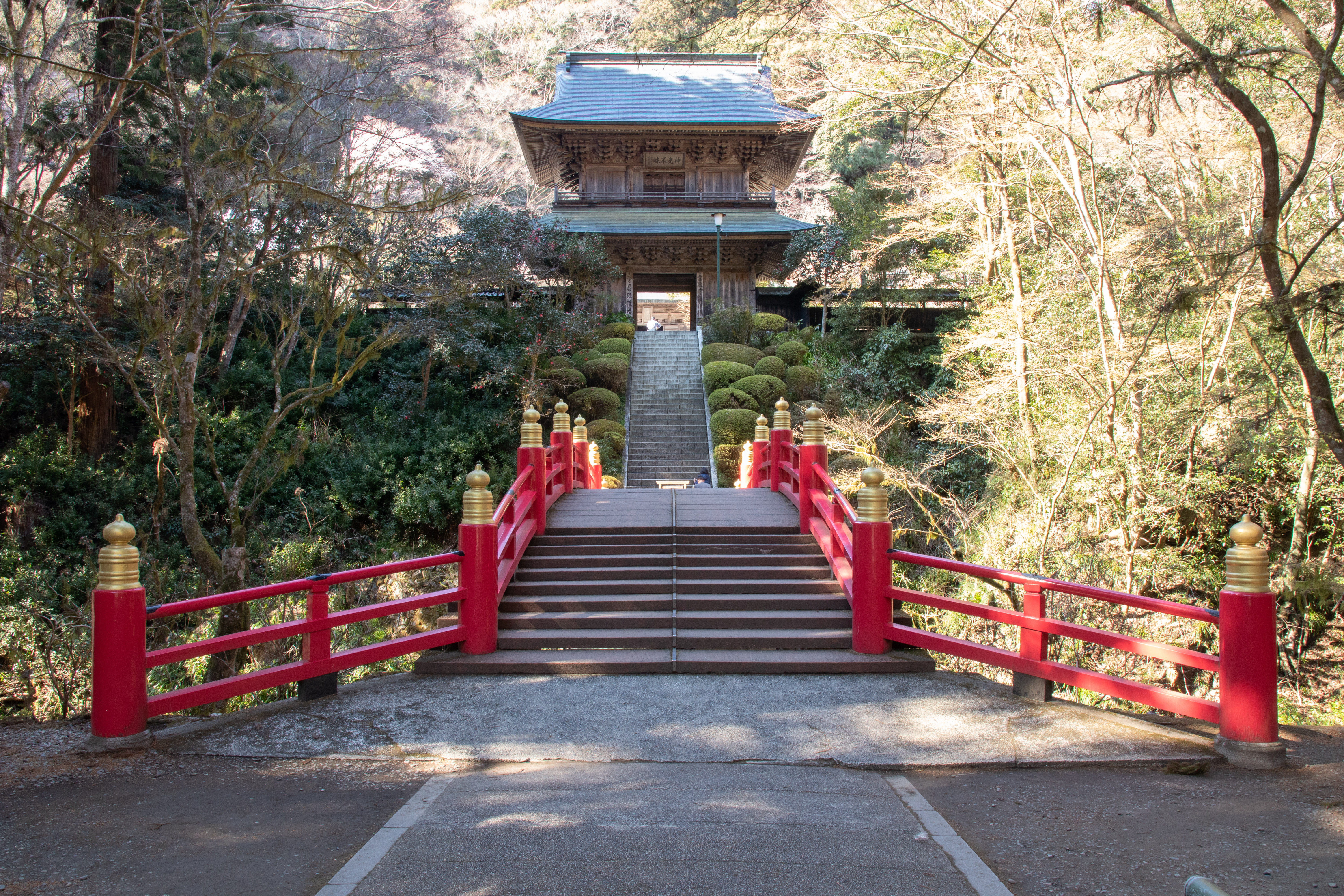 Tozan Ungan-ji Temple, Otawara City, Tochigi, Japan Canon EOS 80D + Sigma 17-70mm F2.8-4 DC Macro OS HSM